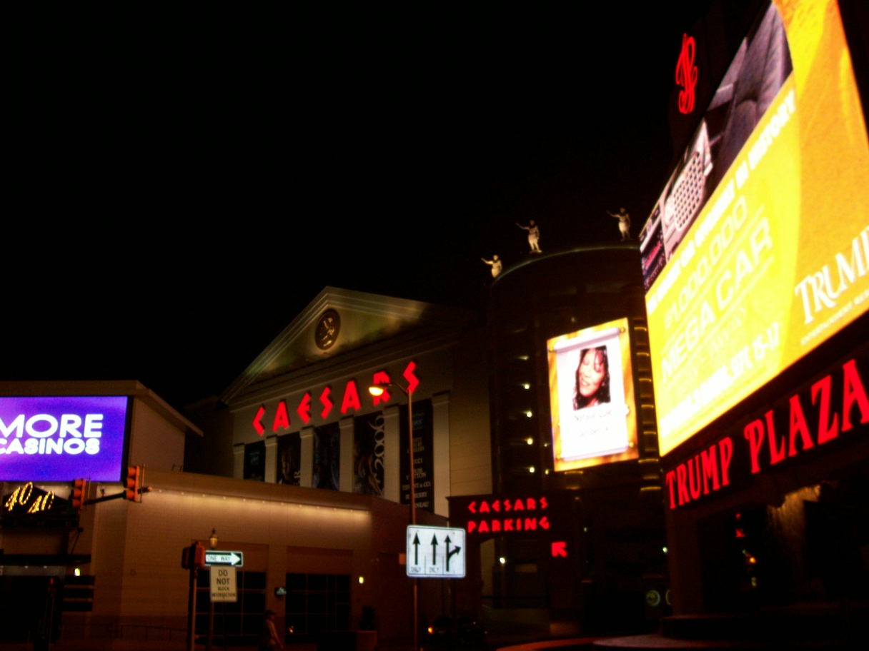 The front of Caesars and Trump Plaza.